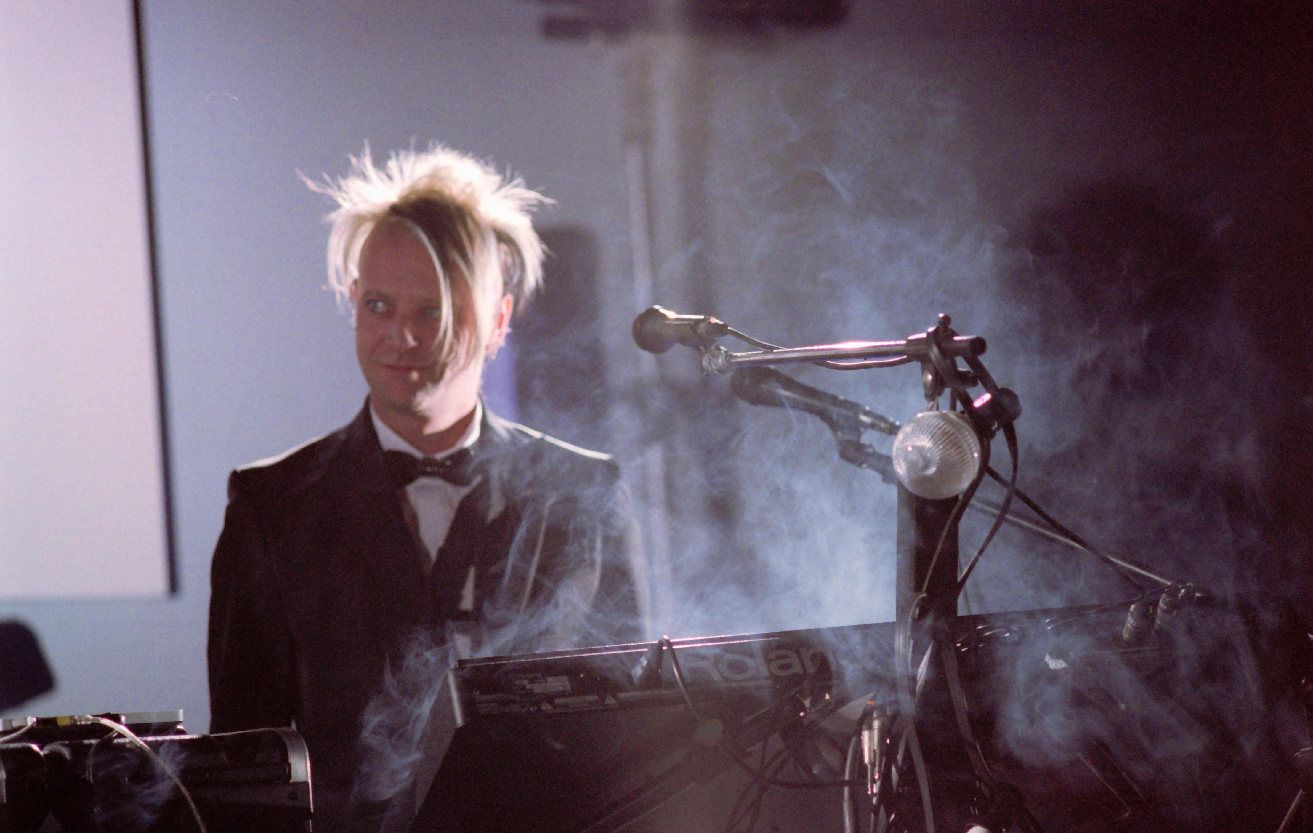 Andy (Andrea Fumagalli) @ Mirafiori Motor Village